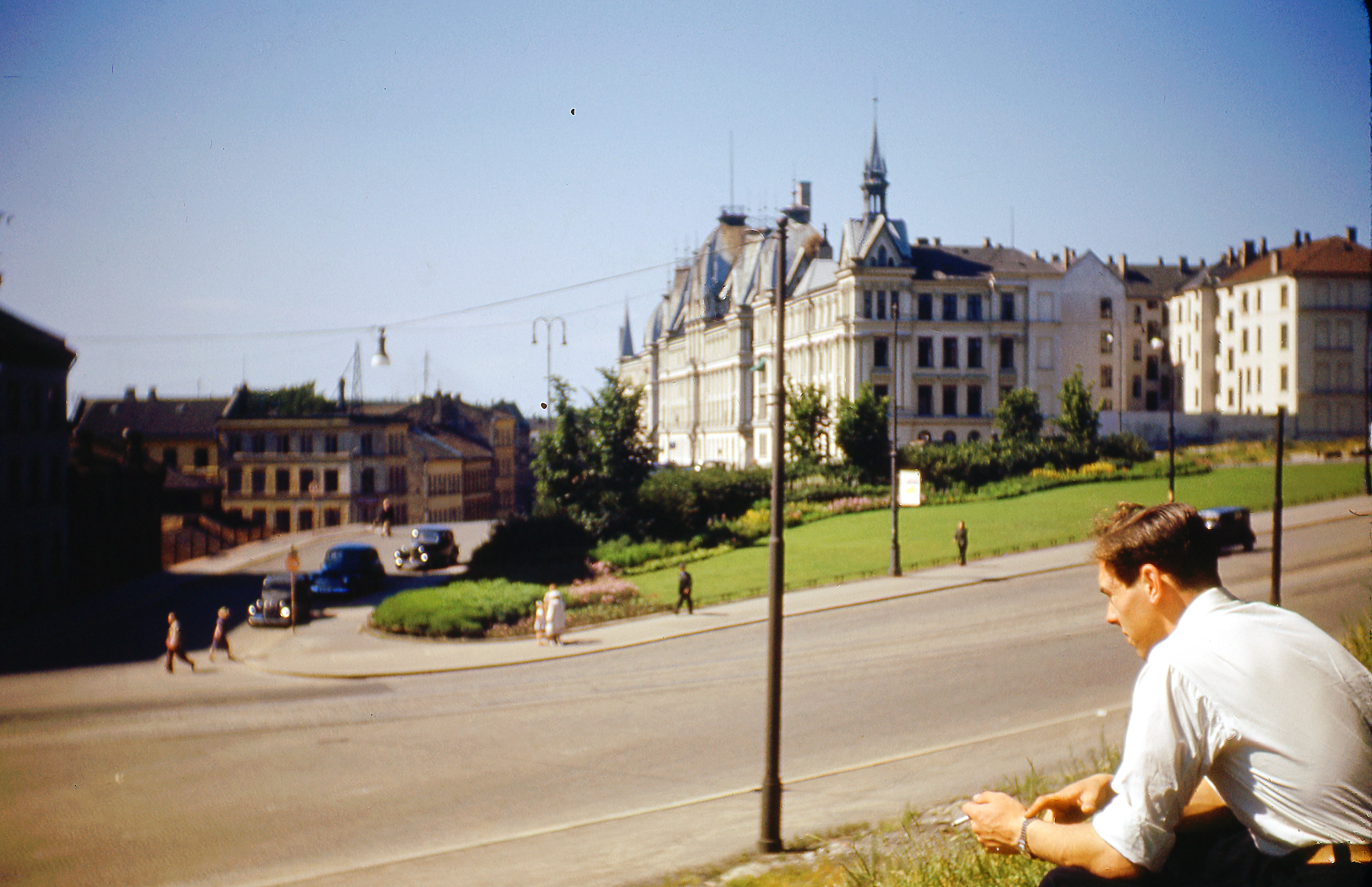 Victoria Terrasse, Oslo, Norway.